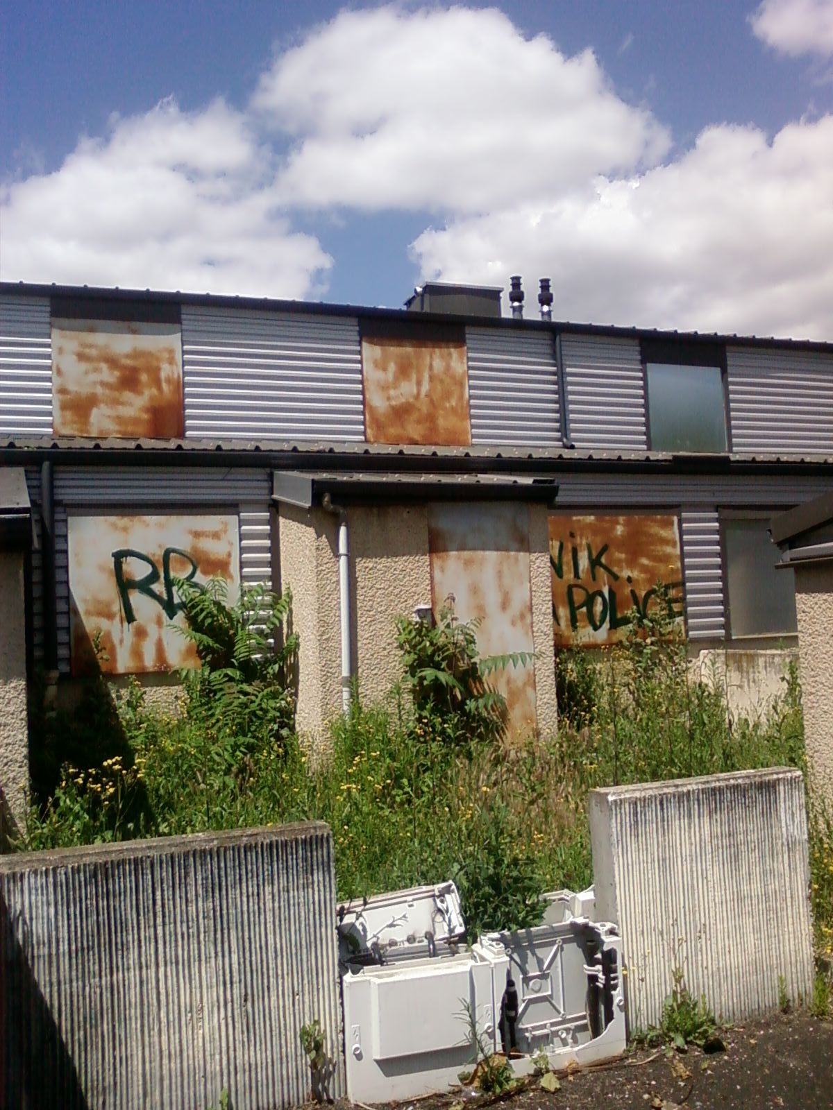 Taudis desertés par une majorité des habitants dû à des mauvaises conditions de vie (insalubrité, pas d' isolation)